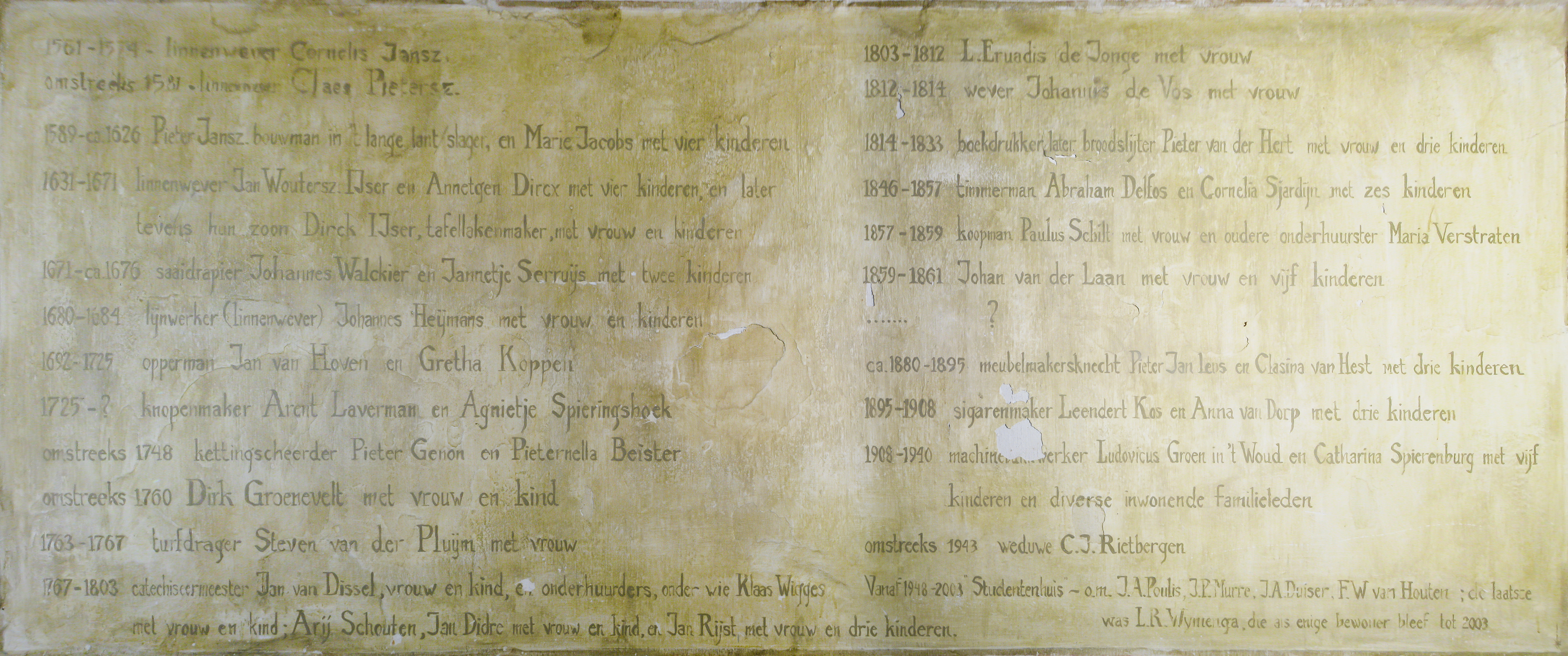 Museum Wevershuis Leiden - inscription in narrow hallway History of people who owned or rented the house since 1561